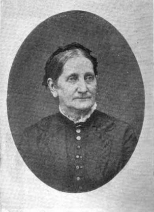 Catherine Amelia Fay Ewing